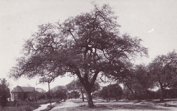 Original 1887 Sierra Madre City Library on Central Ave (now Sierra Madre Blvd). Replace with new building in 1955. Other information Sierra Madre Historical Society